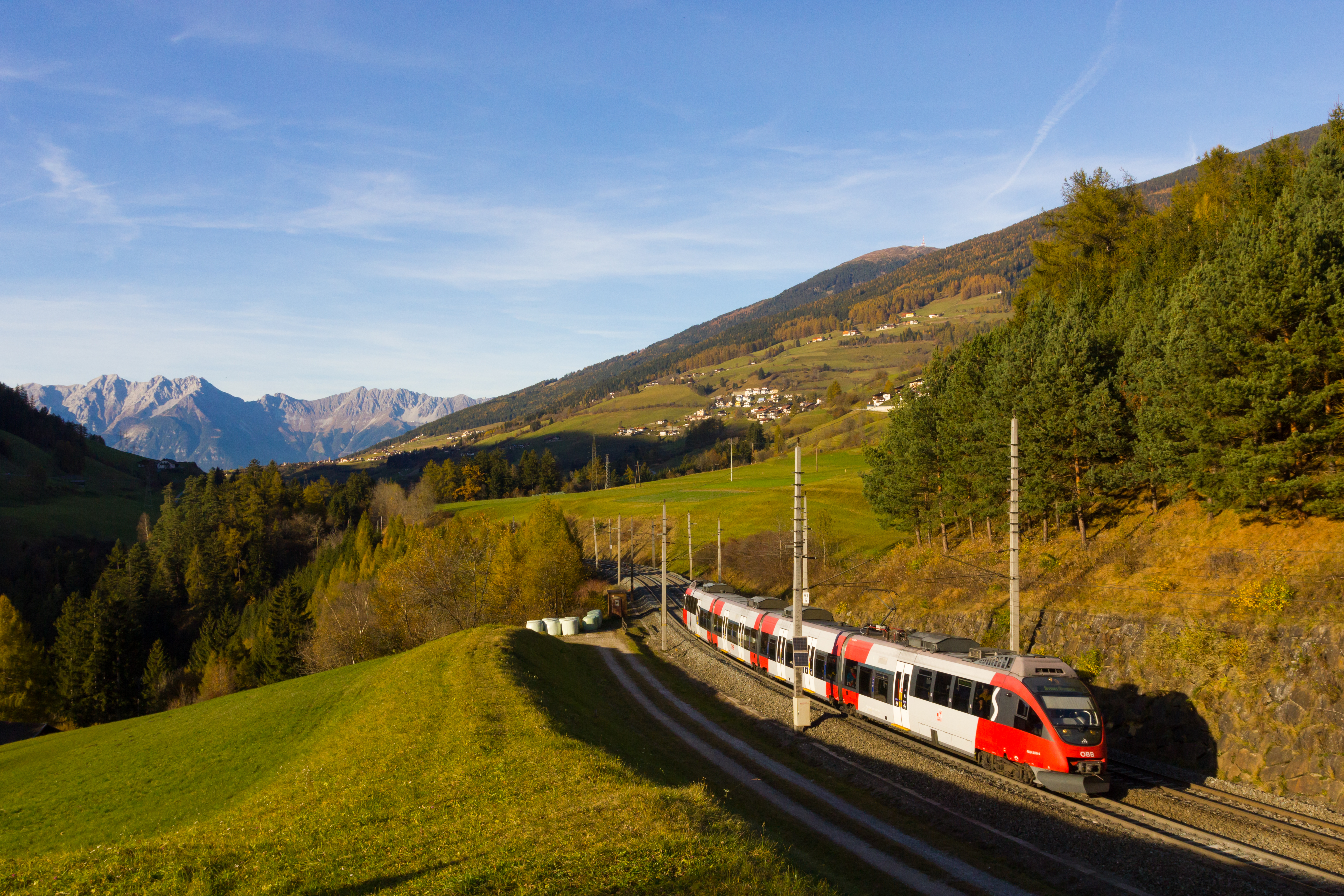 ÖBB 4024-076 approaches the Matrei train station on the later afternoon of All Saints's Day while passing Km 91,5 of the Brennerbahn.